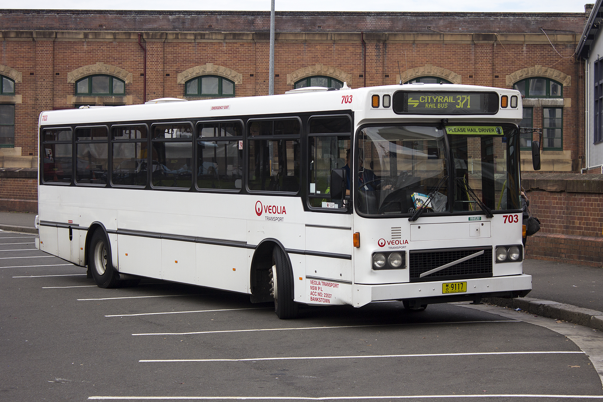 Veolia Transport (mo 9117) Volgren bodied Volvo B10M Mk III at Central Station in Sydney.